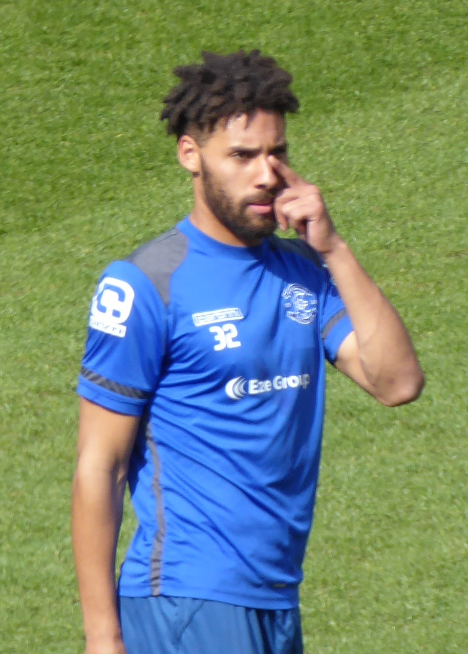 Ryan Shotton of Birmingham City Football Club warming up before a match in April 2016